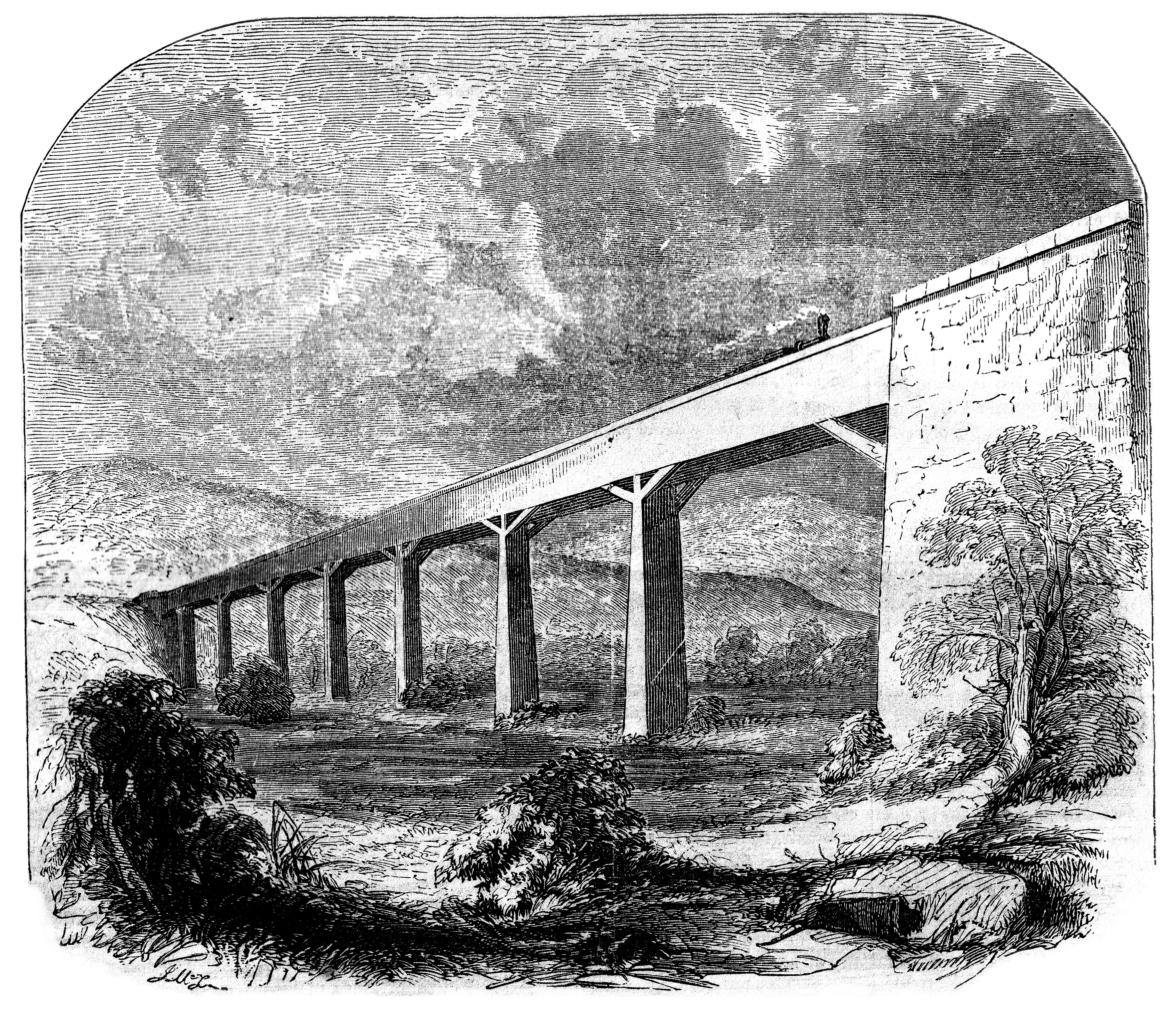 "High Bridge of the Central Railroad of New Jersey" 1854 (wood engraving)